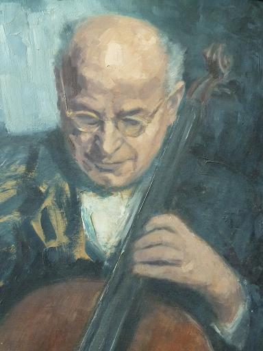 Portrait of Josef Wagnes at an advanced age.